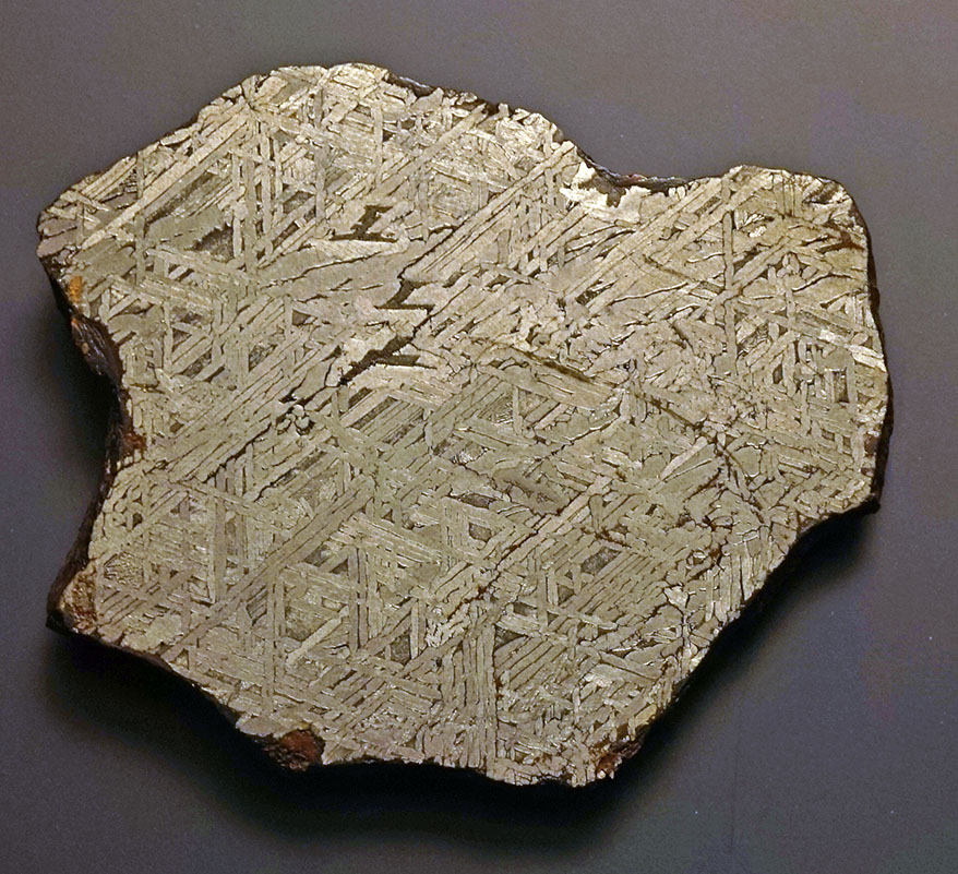 Iron meteorite in Naturmuseum Augsburg. Found in Toluca, Mexico.This photograph was taken with a Sony ILCE-5000